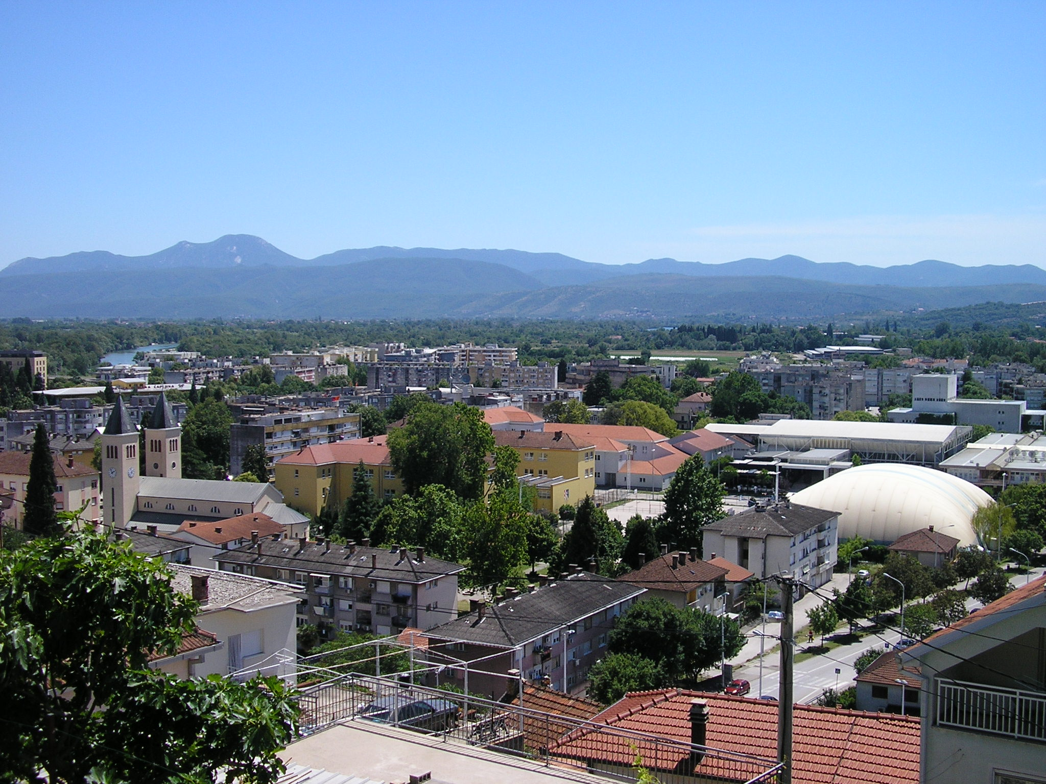 Panorama of Čapljina